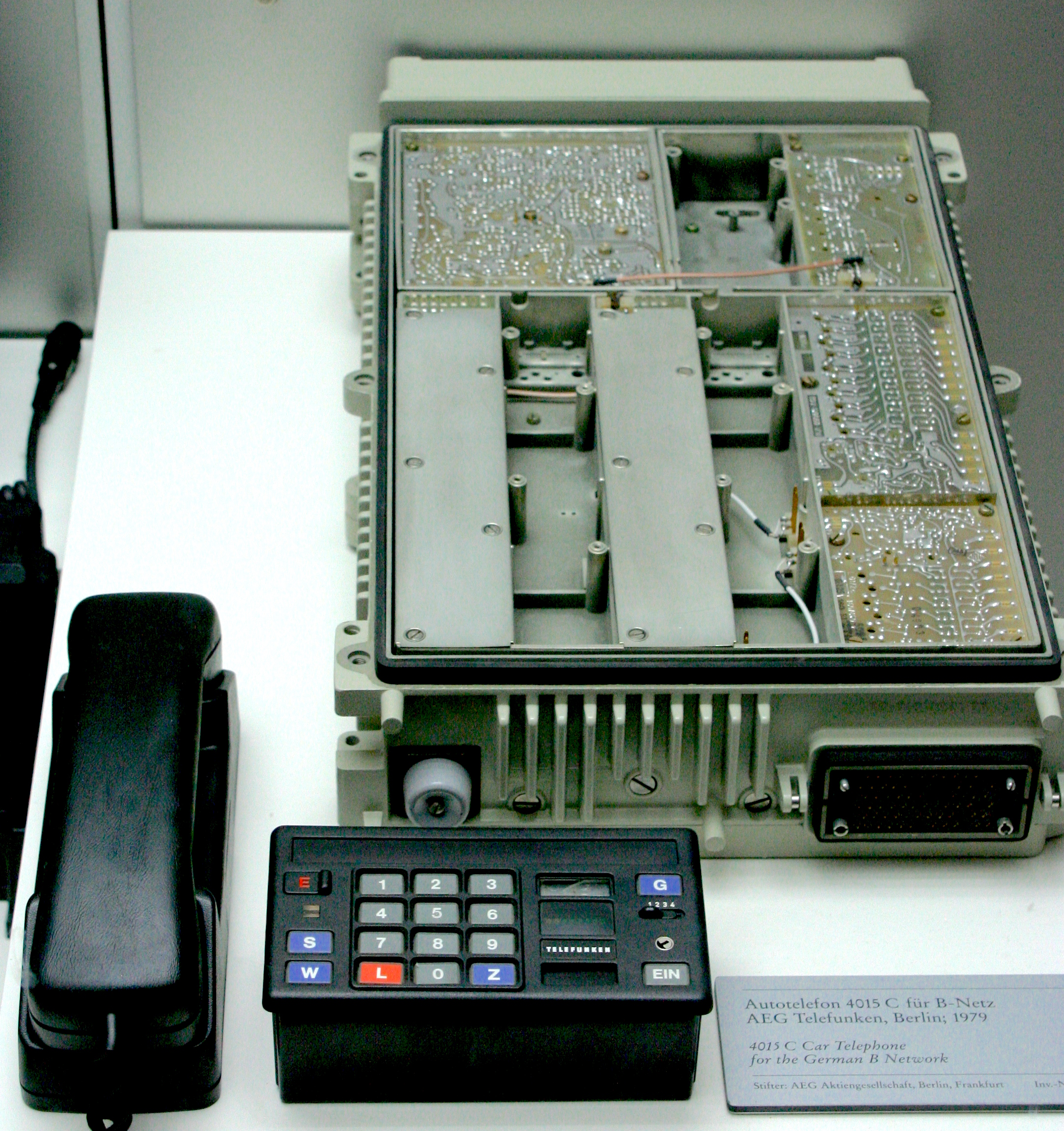 Car phone for the German B network ca. 1979 on display at the Deutsches Museum in Munich Germany